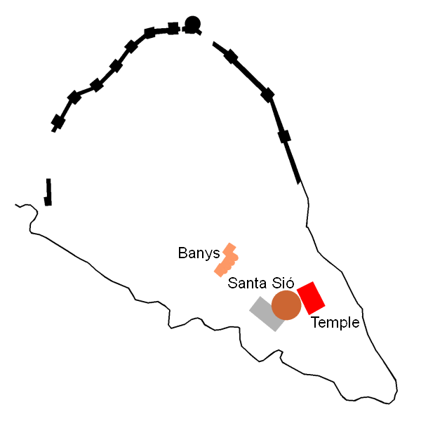 Garni, Armenia